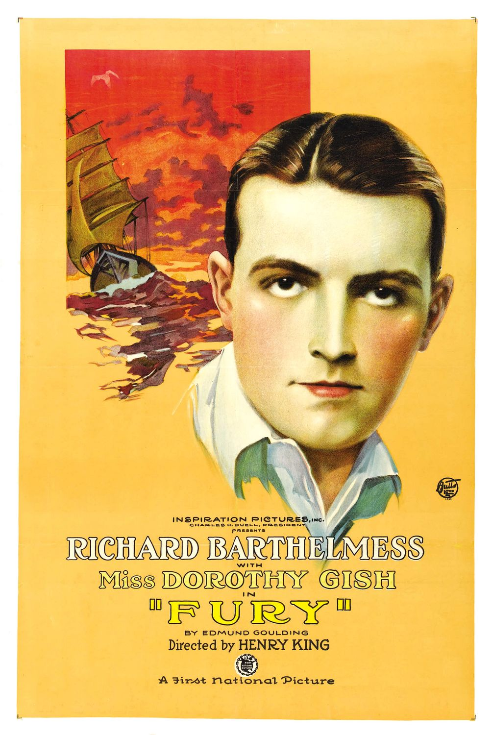 Poster for the 1923 film Fury. There are no copyright markings pertaining to the image as can be seen in the links above.